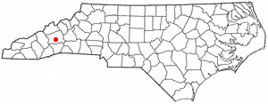 Category:North Carolina Dot Maps